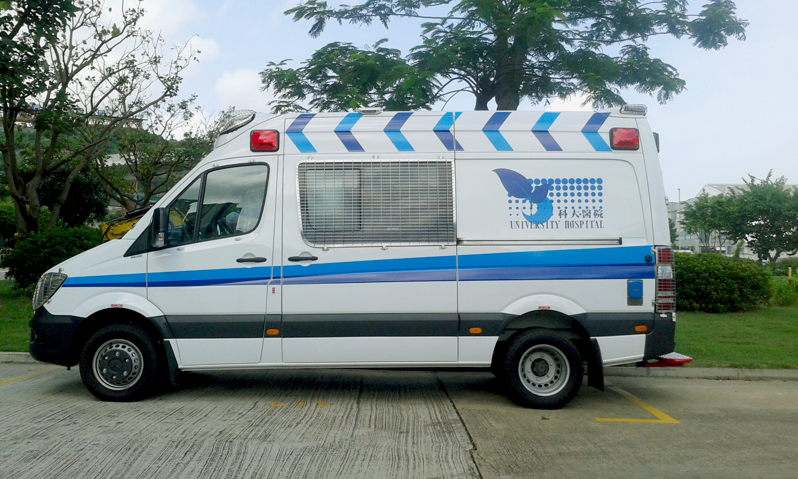 Ambulance of UH Macau